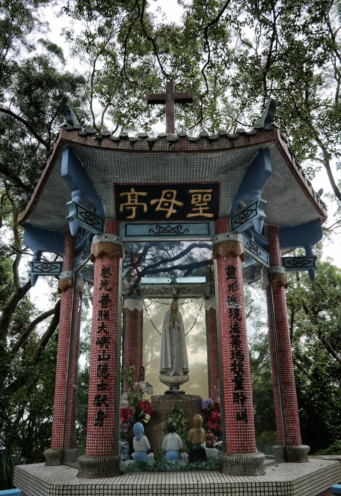 Statues of Our Lady of Fatima, Our Lady of Joy Abbey, Hong Kong …remember your mother…that is what it said